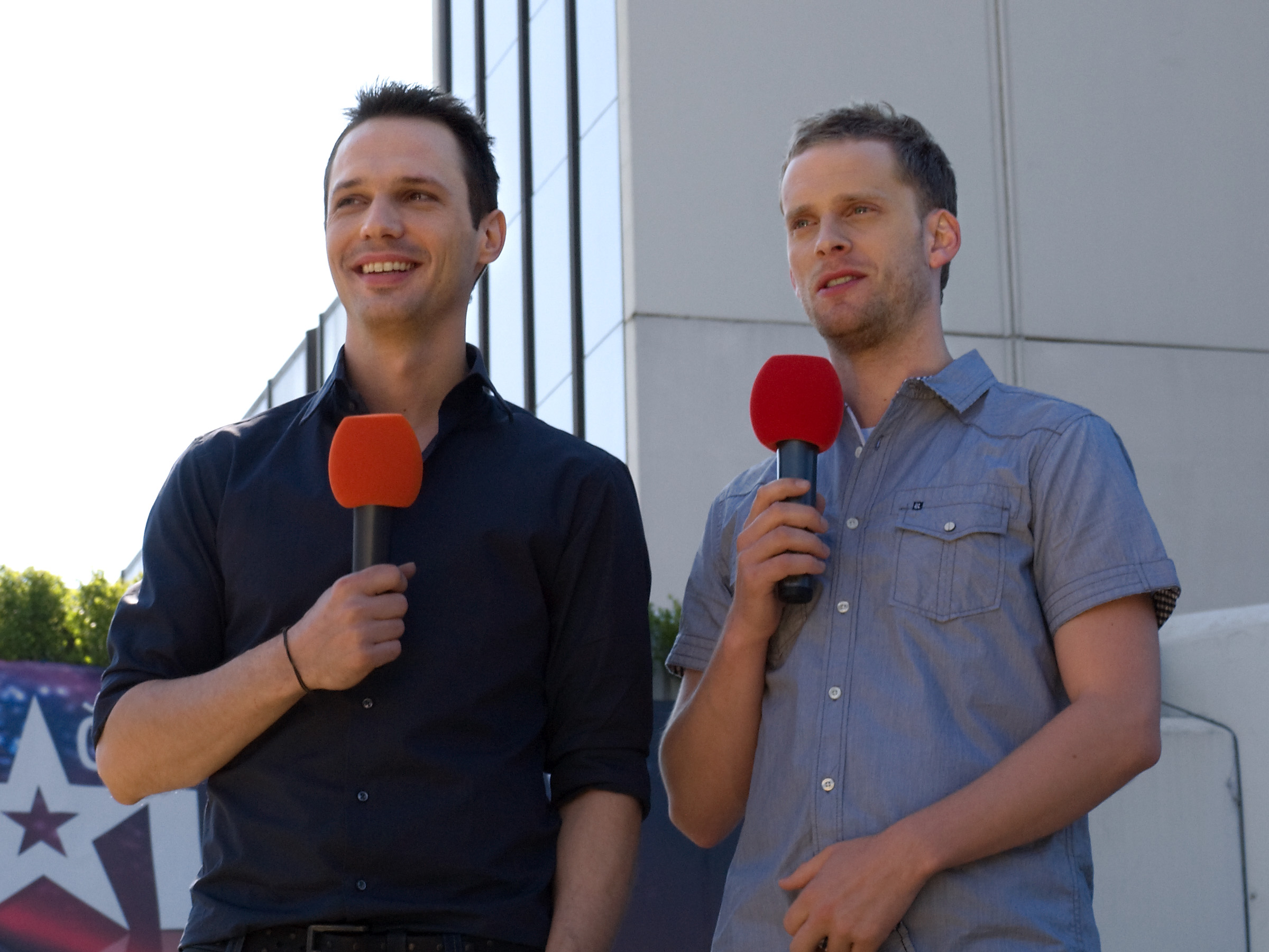 Casting for Czecho-Slovakia's Got Talent in Prague – hosts Martin „Pyco“ Rausch (left, for Slovakia) and Jakub Prachař (right, for the Czech Republic)